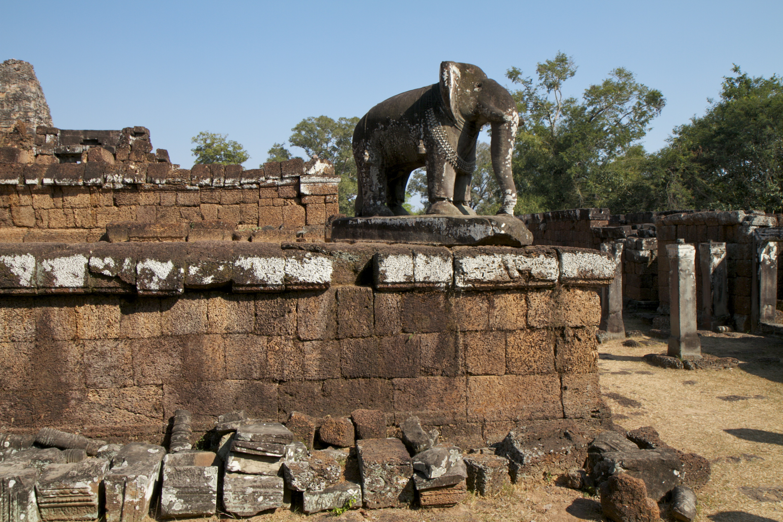 East Mebon guardian elephant